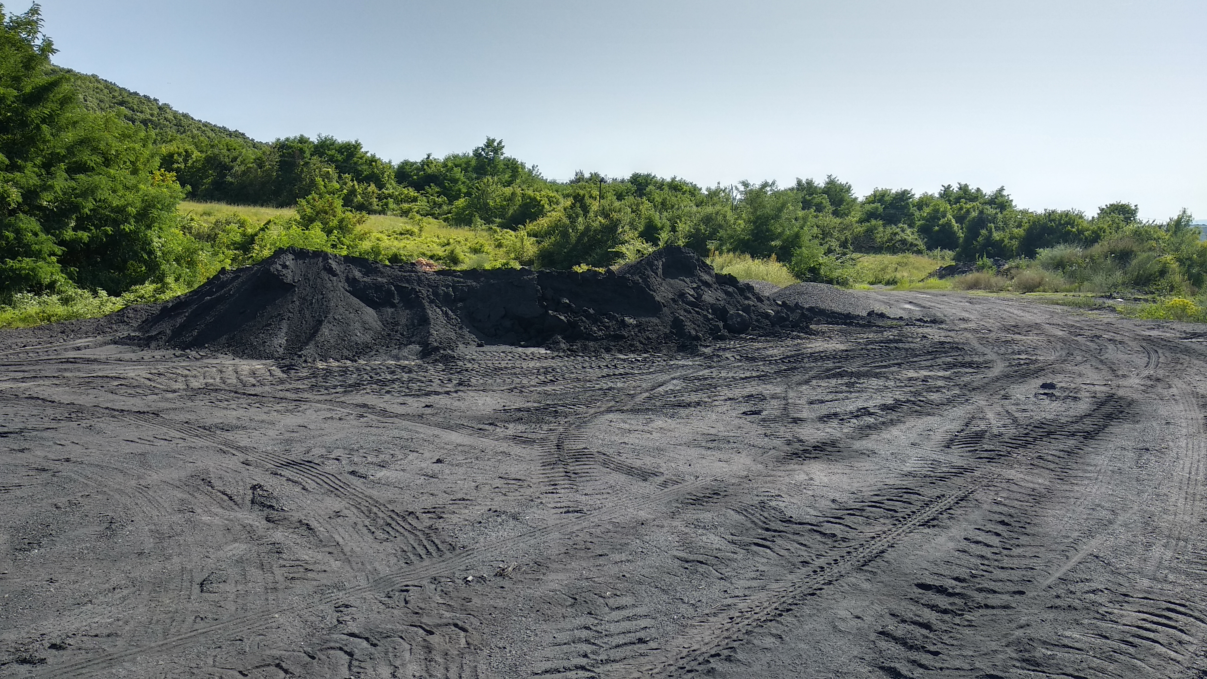 antracite in mine vrska cuka